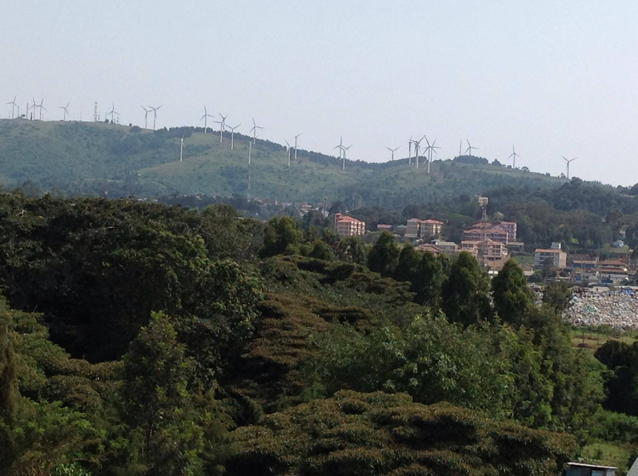 Ngong has and ever-gree vegetation that gives a glimpse of the climate. This is an image of music and dance from Kenya